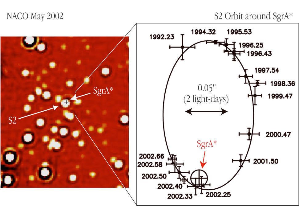 The left panel shows an infrared NACO image of a ~ 2 x 2 arcsec 2 area, centred on the position of the compact radio source "SgrA*" at the centre of the Milky Way Galaxy; it is marked by a small cross. The image was obtained in the K s -band at wavelength 2.1 µm in May 2002 and the angular resolution (image sharpness) is about 0.060 arcsec. At about the same time, the star designated "S2" came within 0.015 arcsec of the radio source. At the distance of the Milky Way Center, 1 arcsec on the sky corresponds to 46 light-days; the bar is 20 light-days long (0.44 arcsec). The right panel displays the orbit of S2 as observed between 1992 and 2002, relative to SgrA* (marked with a circle). The positions of S2 at the different epochs are indicated by crosses with the dates (expressed in fractions of the year) shown at each point. The size of the crosses indicates the measurement errors. The solid curve is the best-fitting elliptical orbit - one of the foci is at the position of SgrA* . The 2002 data points come from NACO observations done during the early commissioning, fine adjustement, and Science Verification phases for this instrument